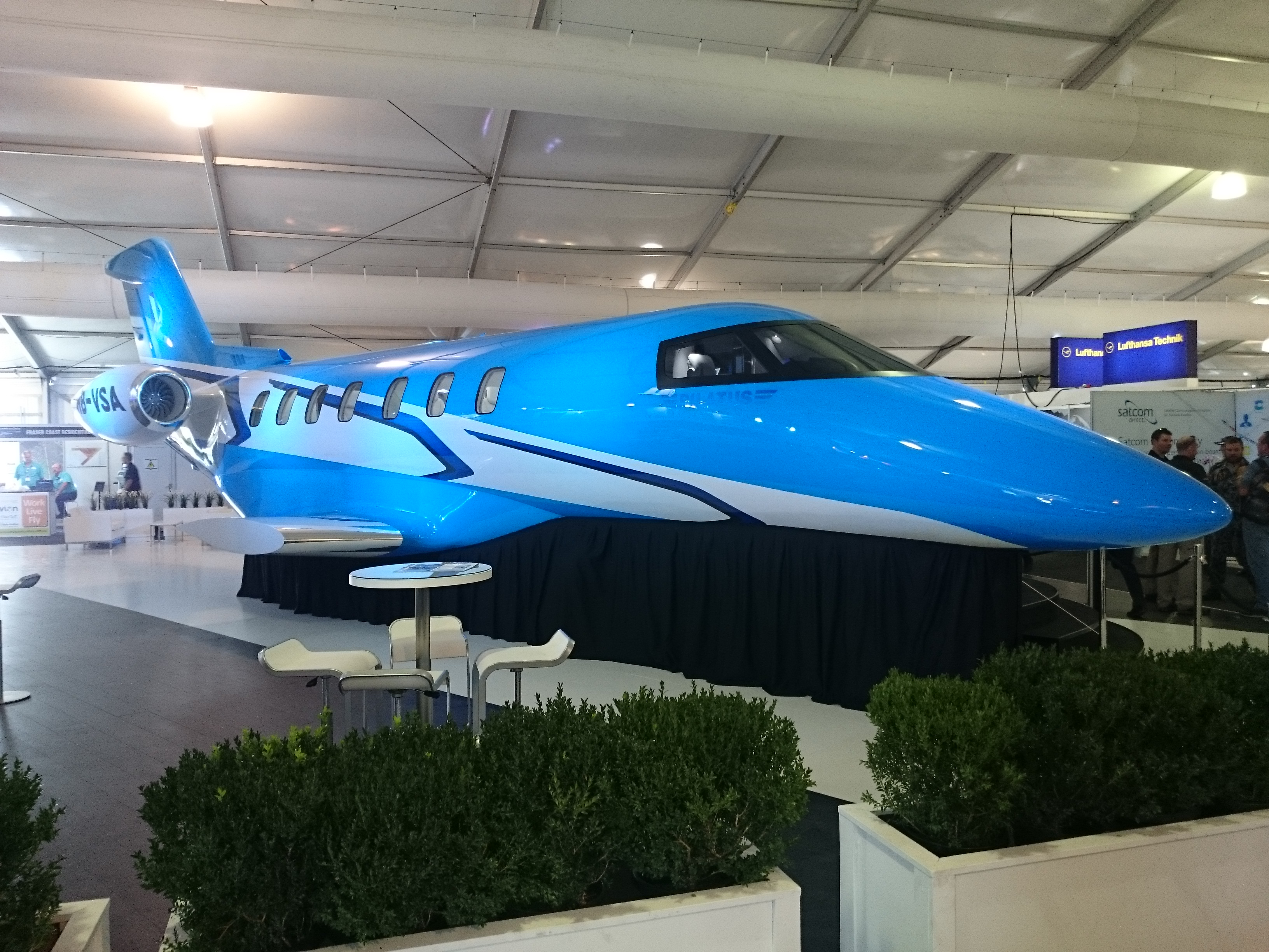 Pilatus PC-24 mock-up on display in Exhibition Hall 1 during the 2015 Australian International Airshow